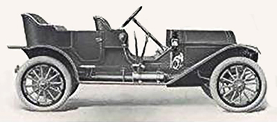 A side view of the Jonz Automobile Co. 1908 Model B Demi Tonneau